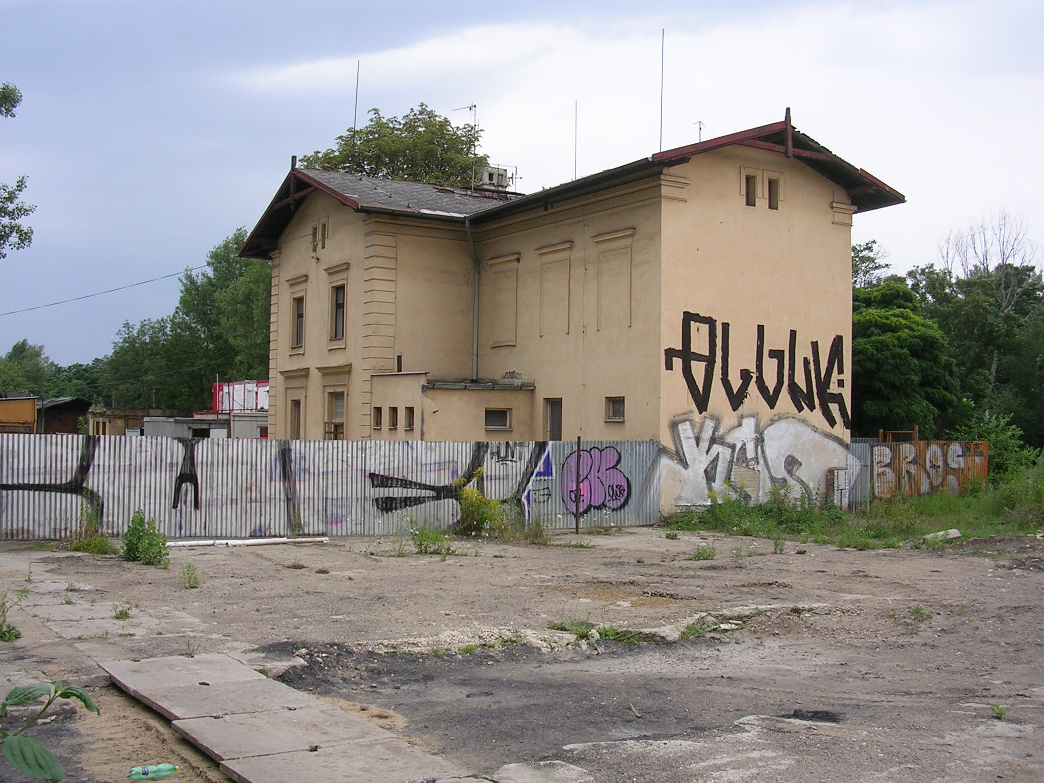 Libeň, Prague, the Czech Republic. Former railway station "Praha-Libeň dolní nádraží".